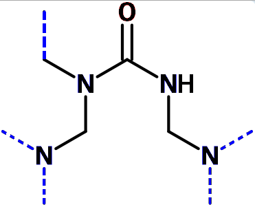 Possible structural formula of an urea-formaldehyde resin (UF).